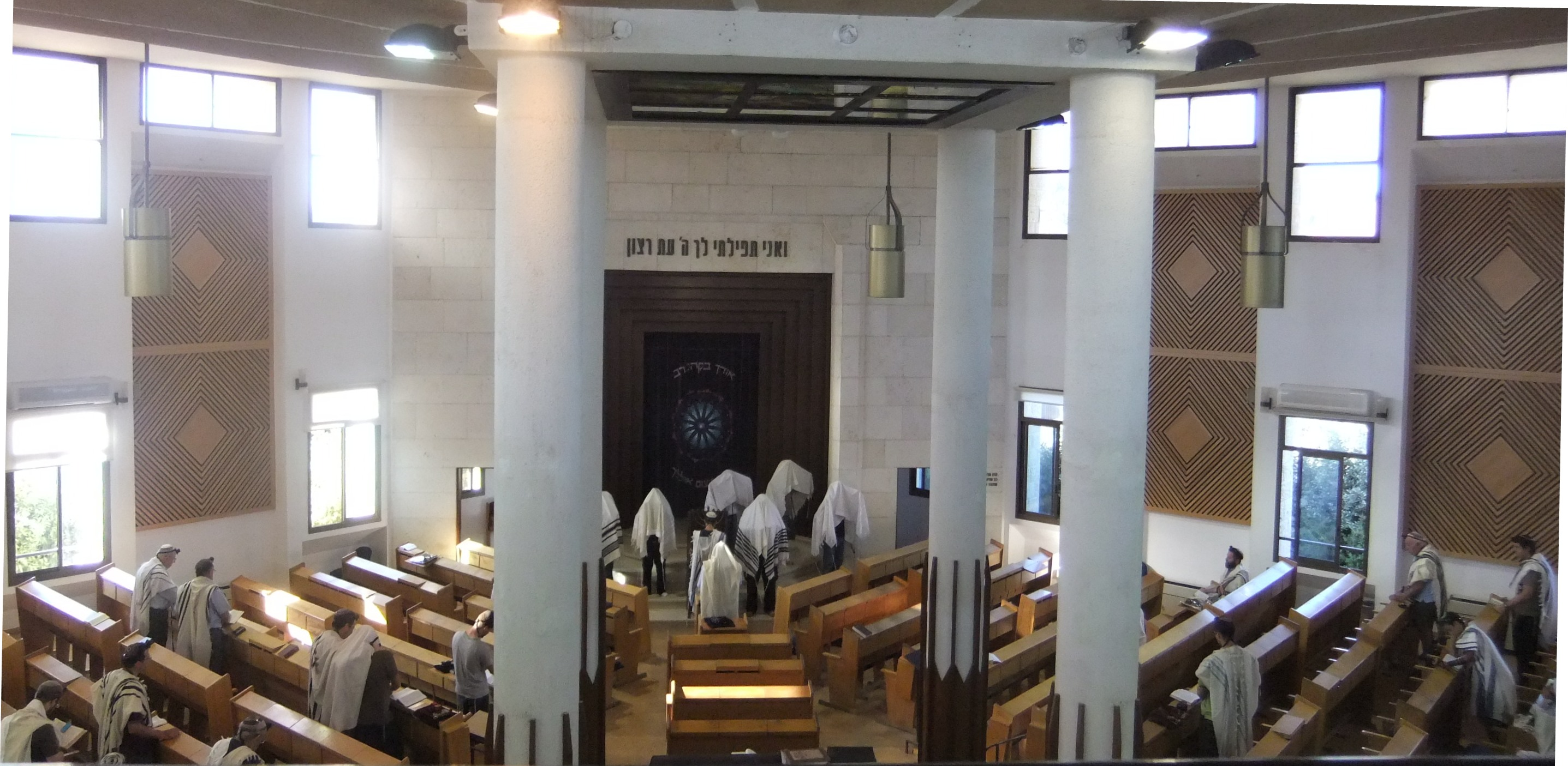 Birkat Kohanim in the Ofra Synagouge